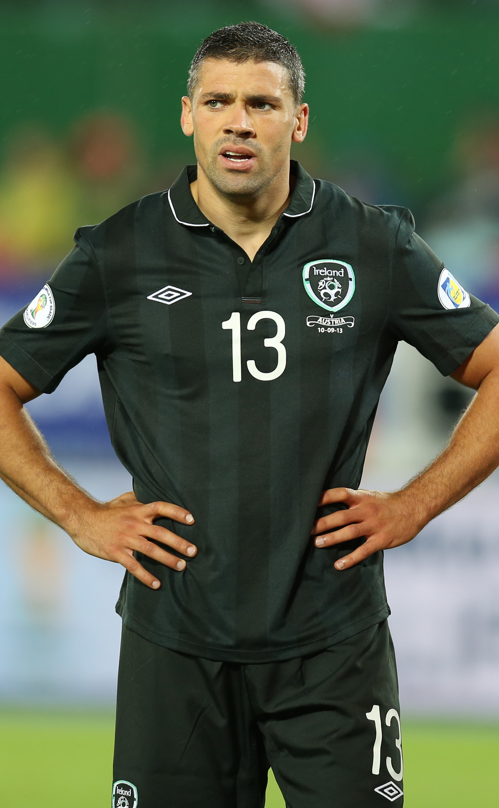 2014 FIFA World Cup qualification (UEFA), Group C: Republic of Ireland national football team at 10. September 2013 before the match against the Austria national football team (0:1) in the Ernst-Happel-Stadion in Vienna. Here:James McClean, Irish winger. The making of this work was supported by Wikimedia Austria. For other files made with the support of Wikimedia Austria, please see the category Supported by Wikimedia Österreich.